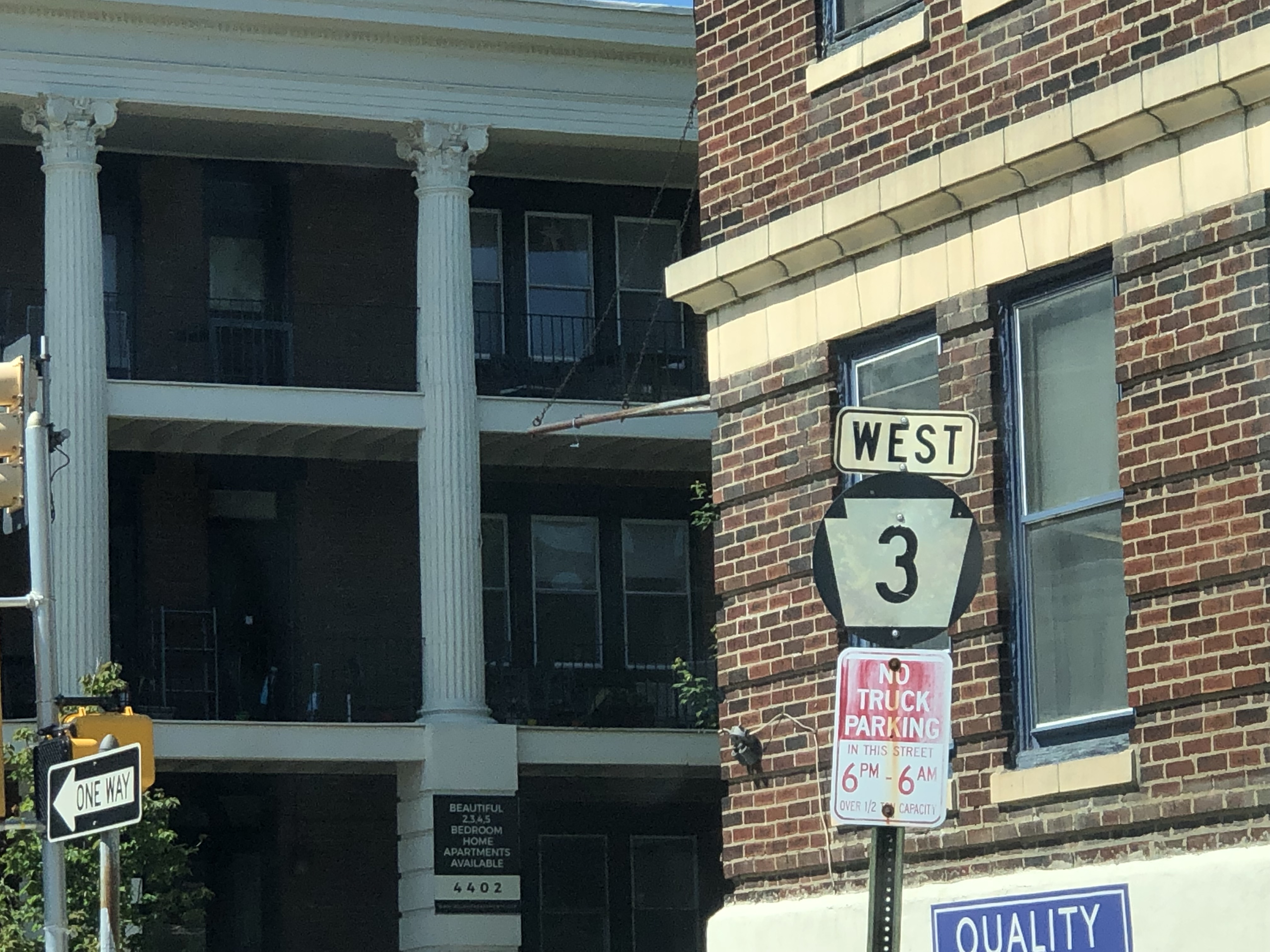 PA 3 old sign